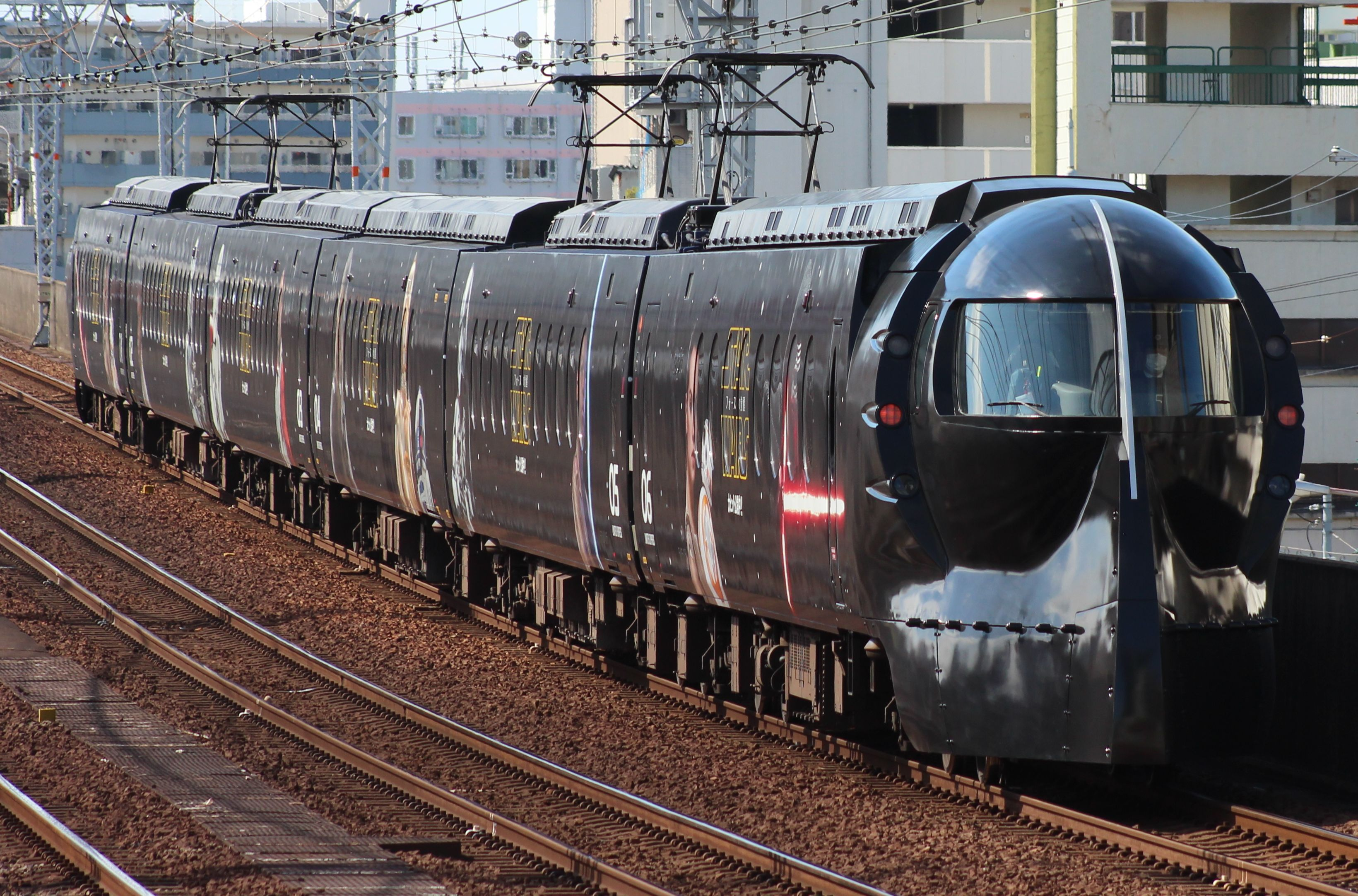 A Nankai 50000 series EMU in special Star Wars: The Force Awakens promotional livery approaching Imamiyaebisu Station